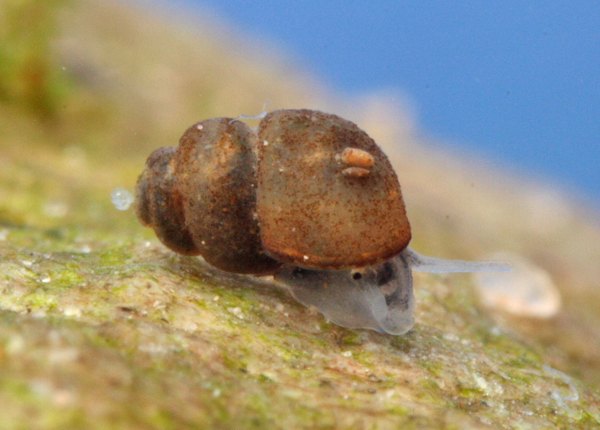 Bythinella compressa, Lütterquelle, Rhön, Germany